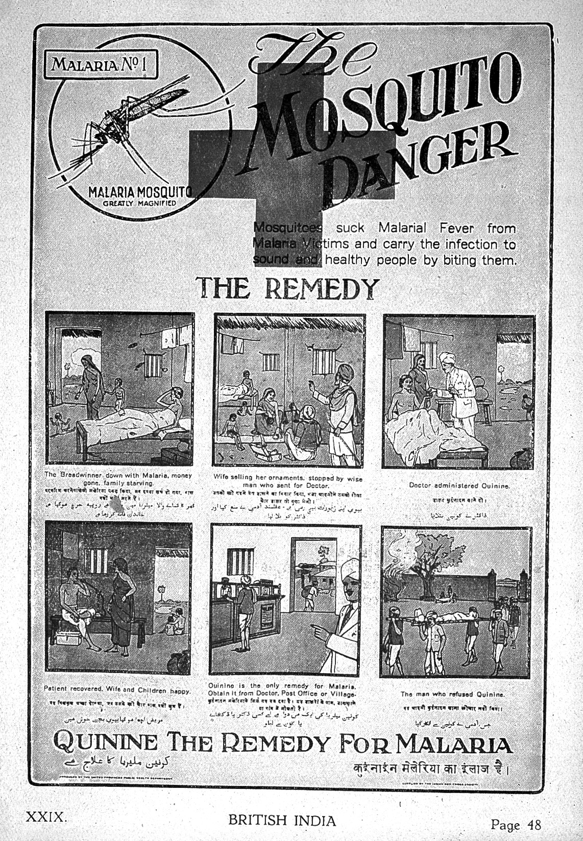 "British India", print illustrating six different stages in the life of a man infected with malaria. General Collections Keywords: Disease; Malaria; India